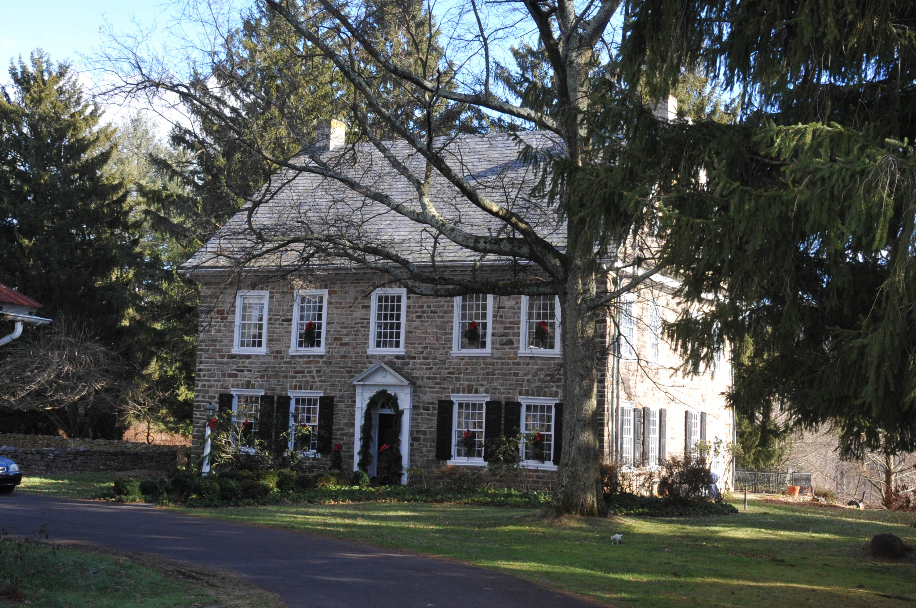 AKA RUSH’S MILL; ALONG THE PERKIOMEN CREEK IN HEREFORD TWP.; BUILT IN 1794